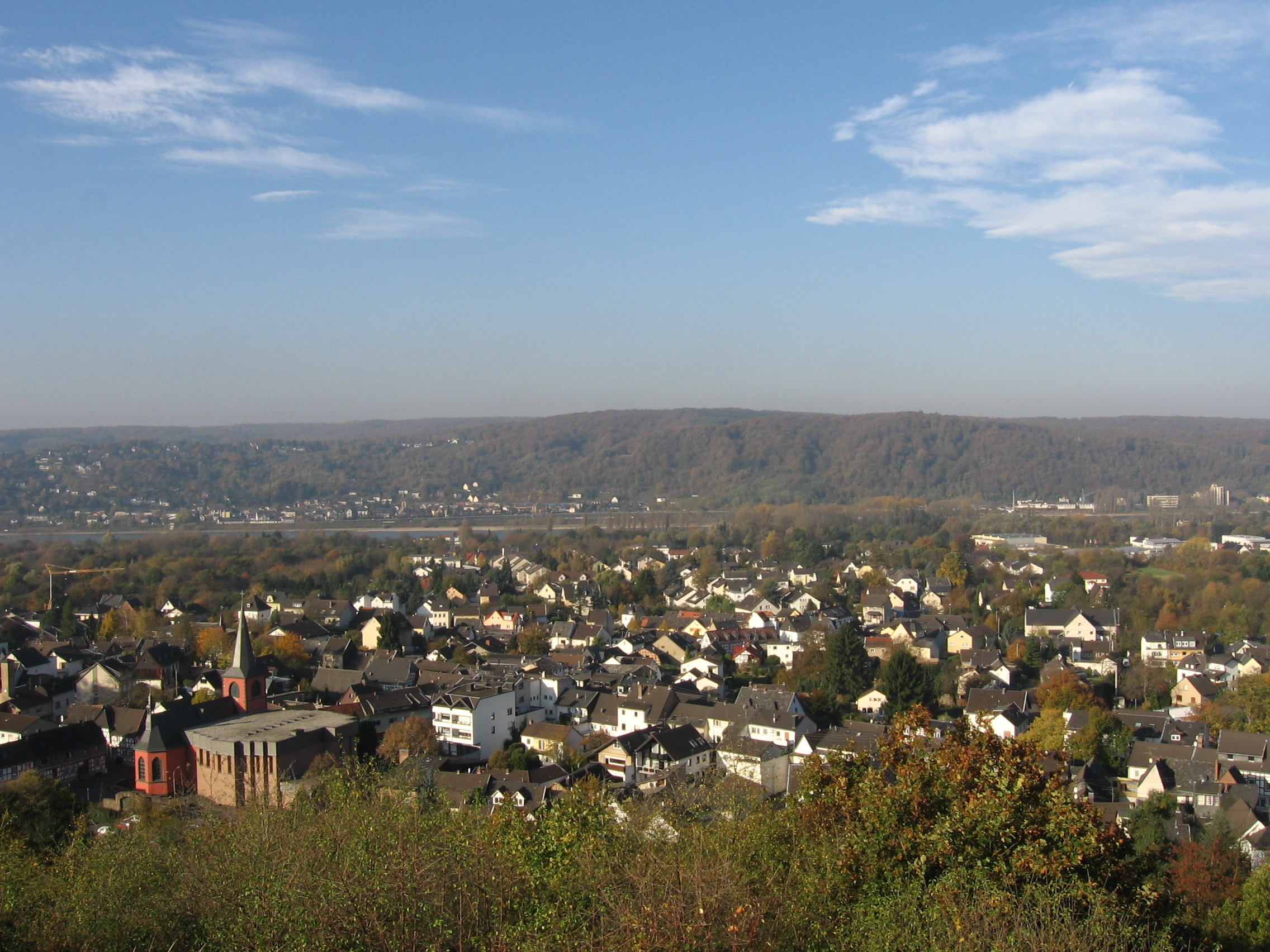 Overview over Rheinbreitbach